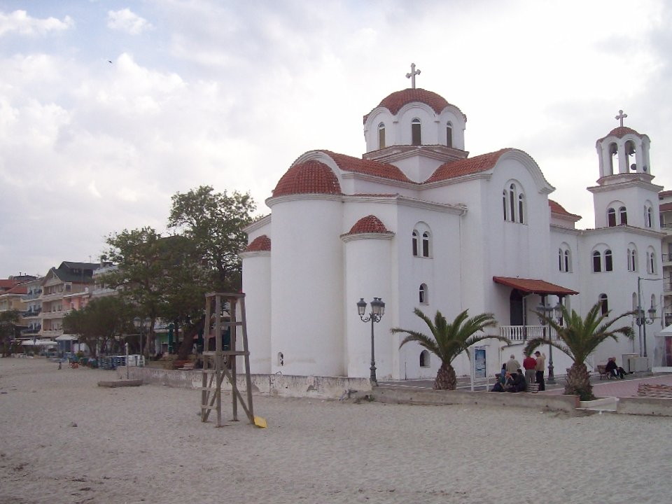 Saint Photini Church in Paralia Katerinis by Tilemahos Eftimiadis